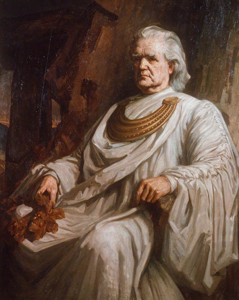 A painting from the Framed Works of Art collection at the National Library of wales.